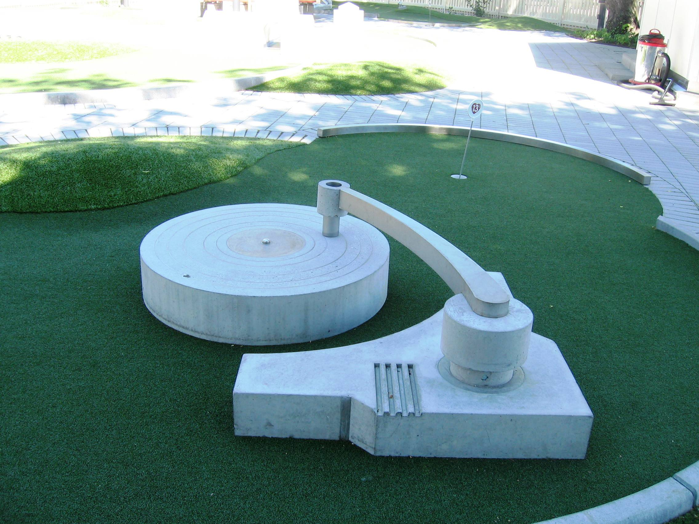 Mini golf course, Malmo, Sweden